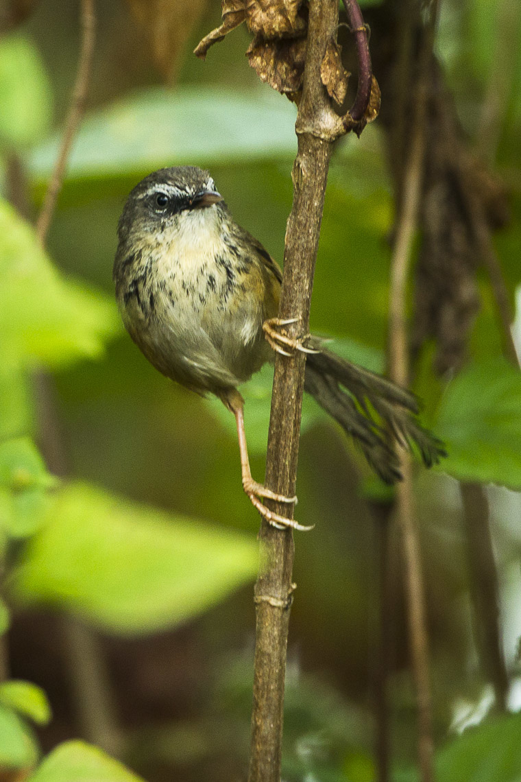 Hill Prinia - Thailand_S4E9201